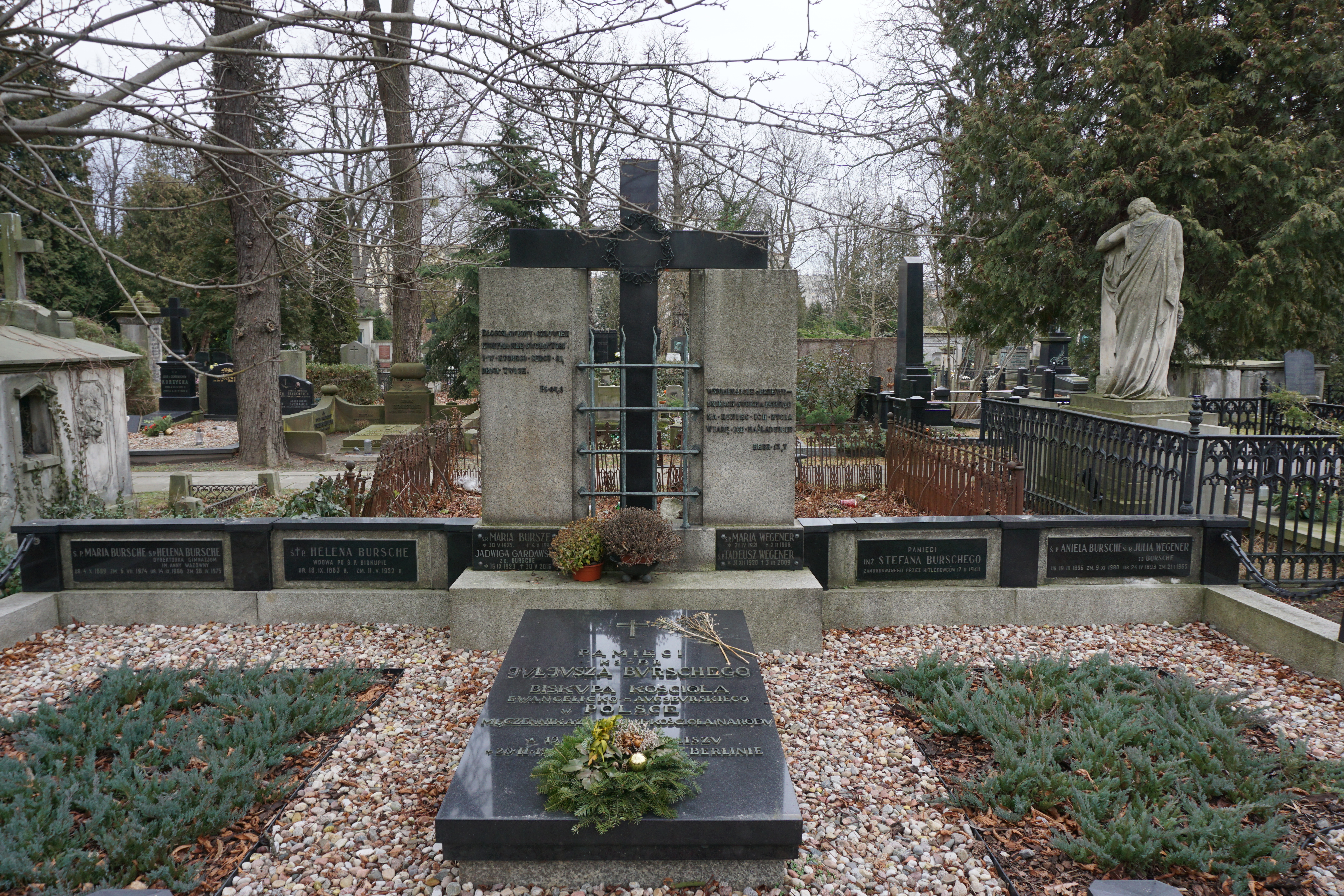 The grave of Helena Bursche at the Evangelical-Augsburg Cemetery in Warsaw (avenue 9, grave 2p4)